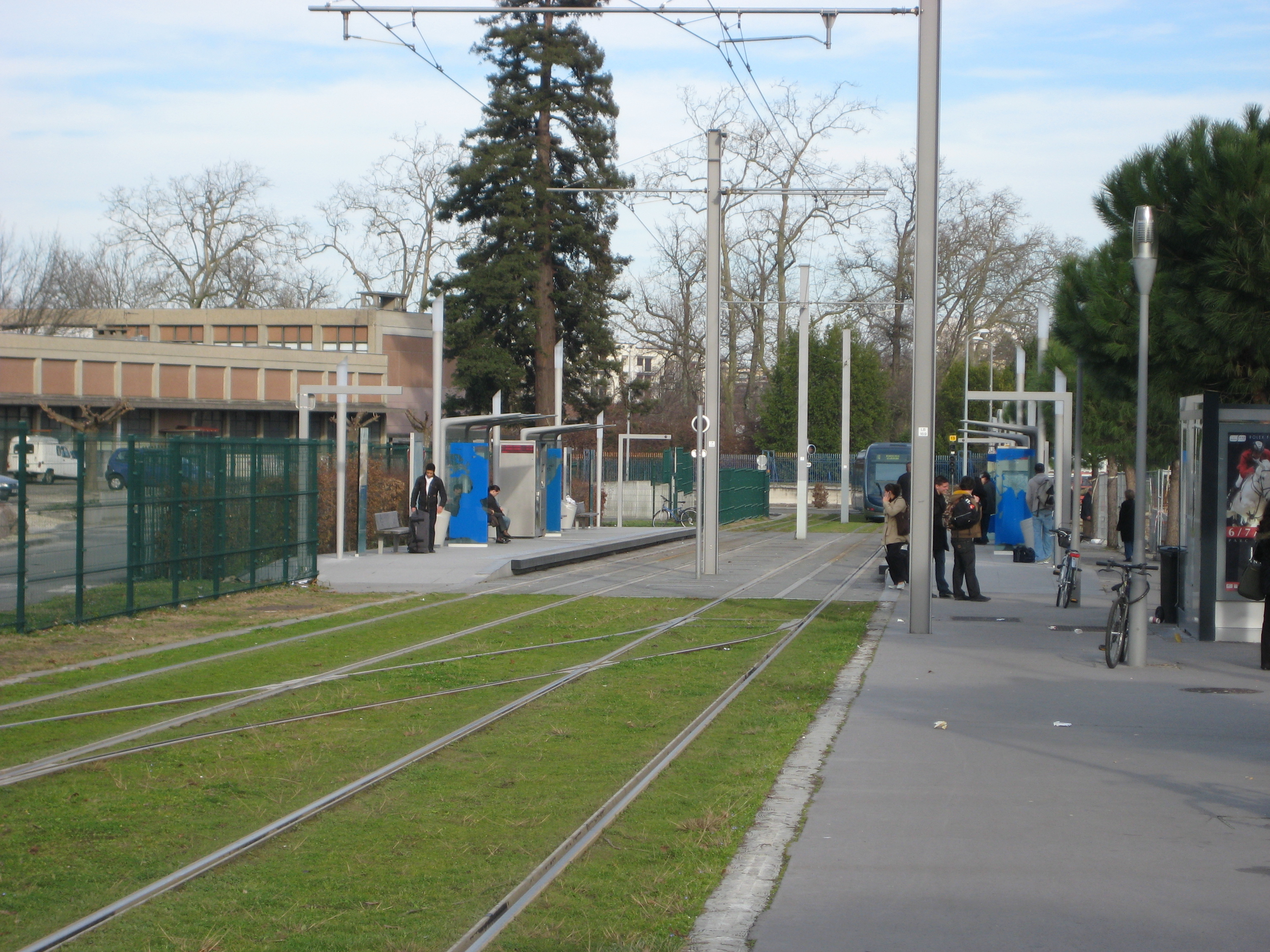 Station Peixotto on the Tramway de Bordeaux